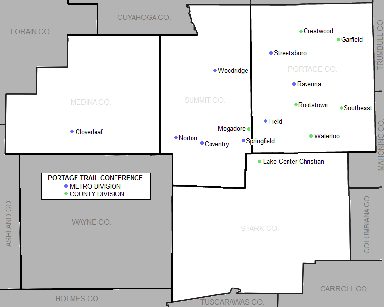 Map of Portage Trail Conference members.